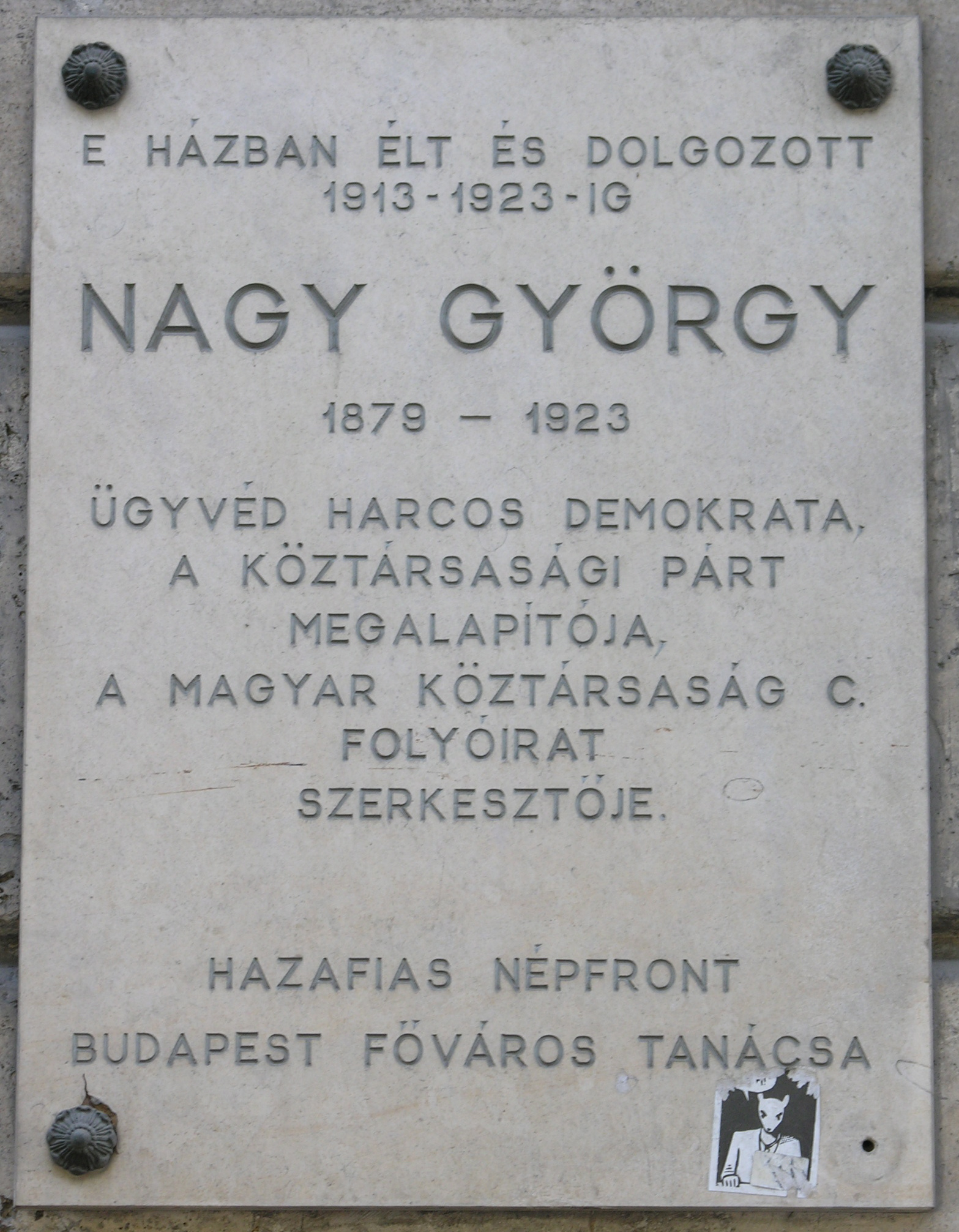 Commemorative plaque of the politician György Nagy in Budapest District VIII, József Boulevard No 33